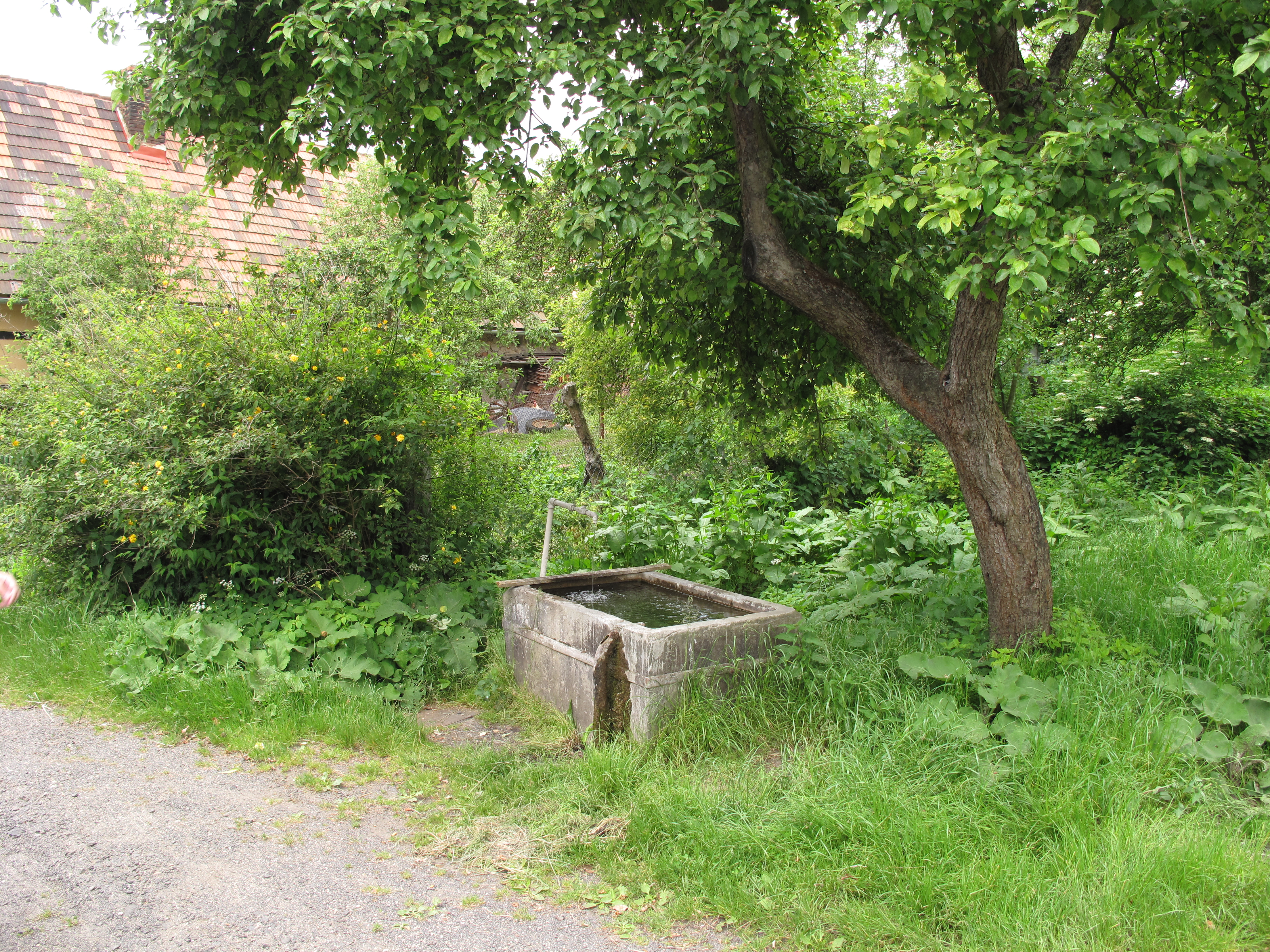 Hrušovka stream in Hrušovka village, Litoměřice District, Czech Republic.